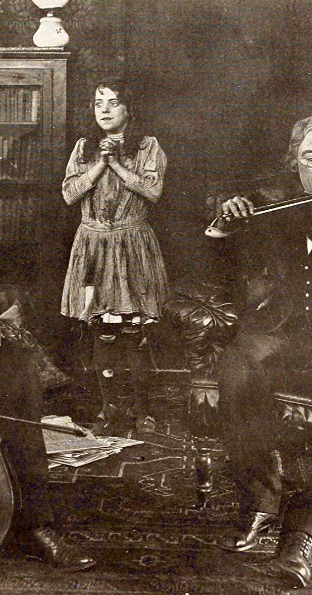 All for Her, 1912 film by Herbert Brenon. Film still with Gladys Egan, May 2nd, 1912